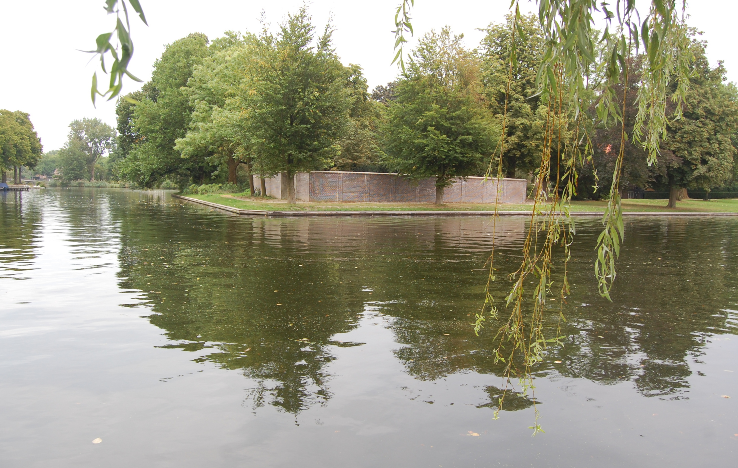 Wall of jewish cemetry in Woerden